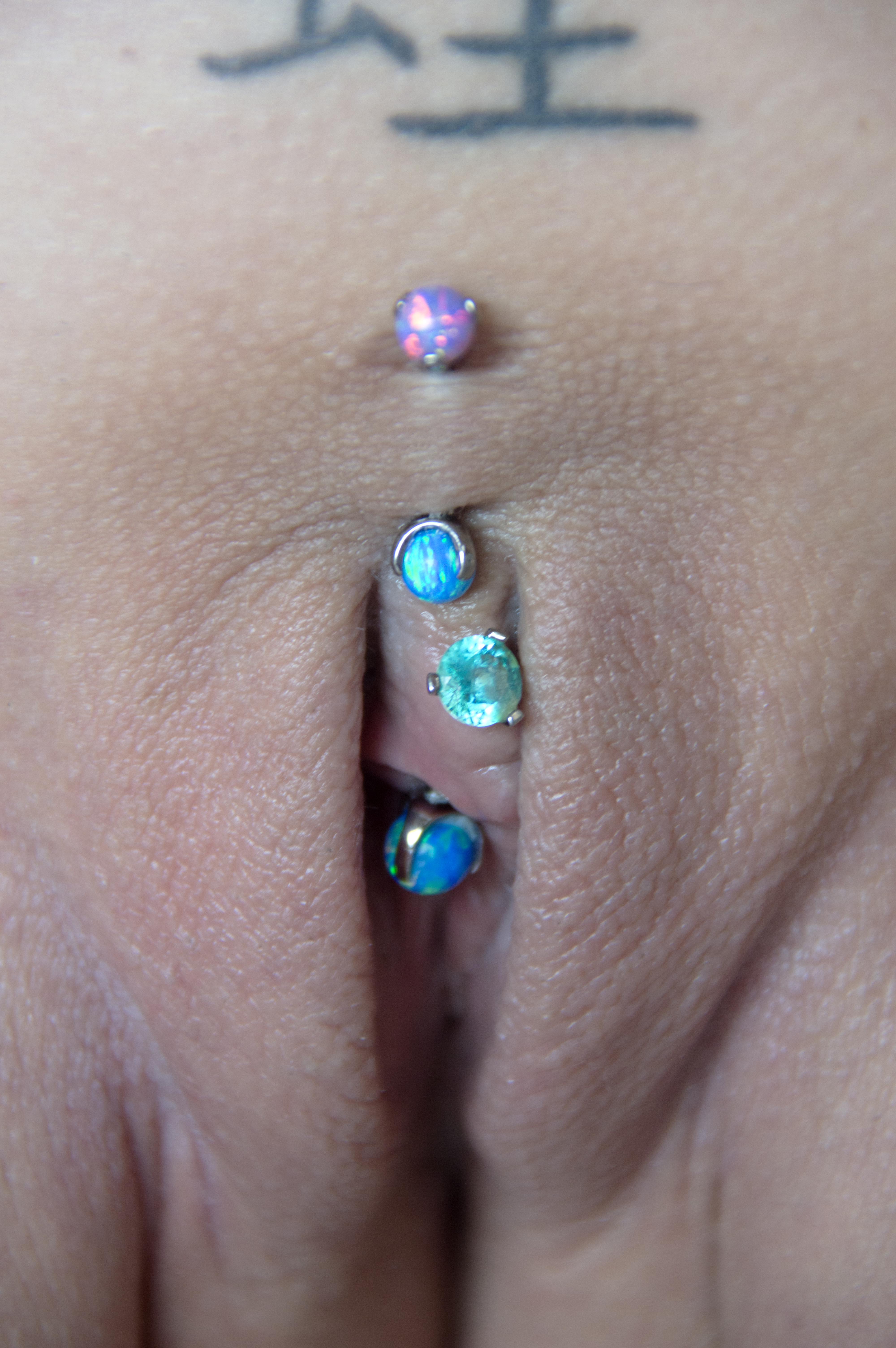 Close up of Christina and VCH piercings